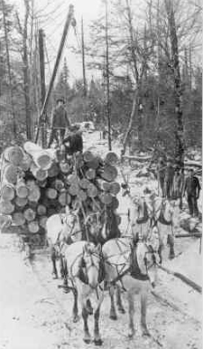 Logs being taken to the lumber mill by a team working for the Fountain-Campbell Lumber Company in northwest Taylor County, Wisconsin.